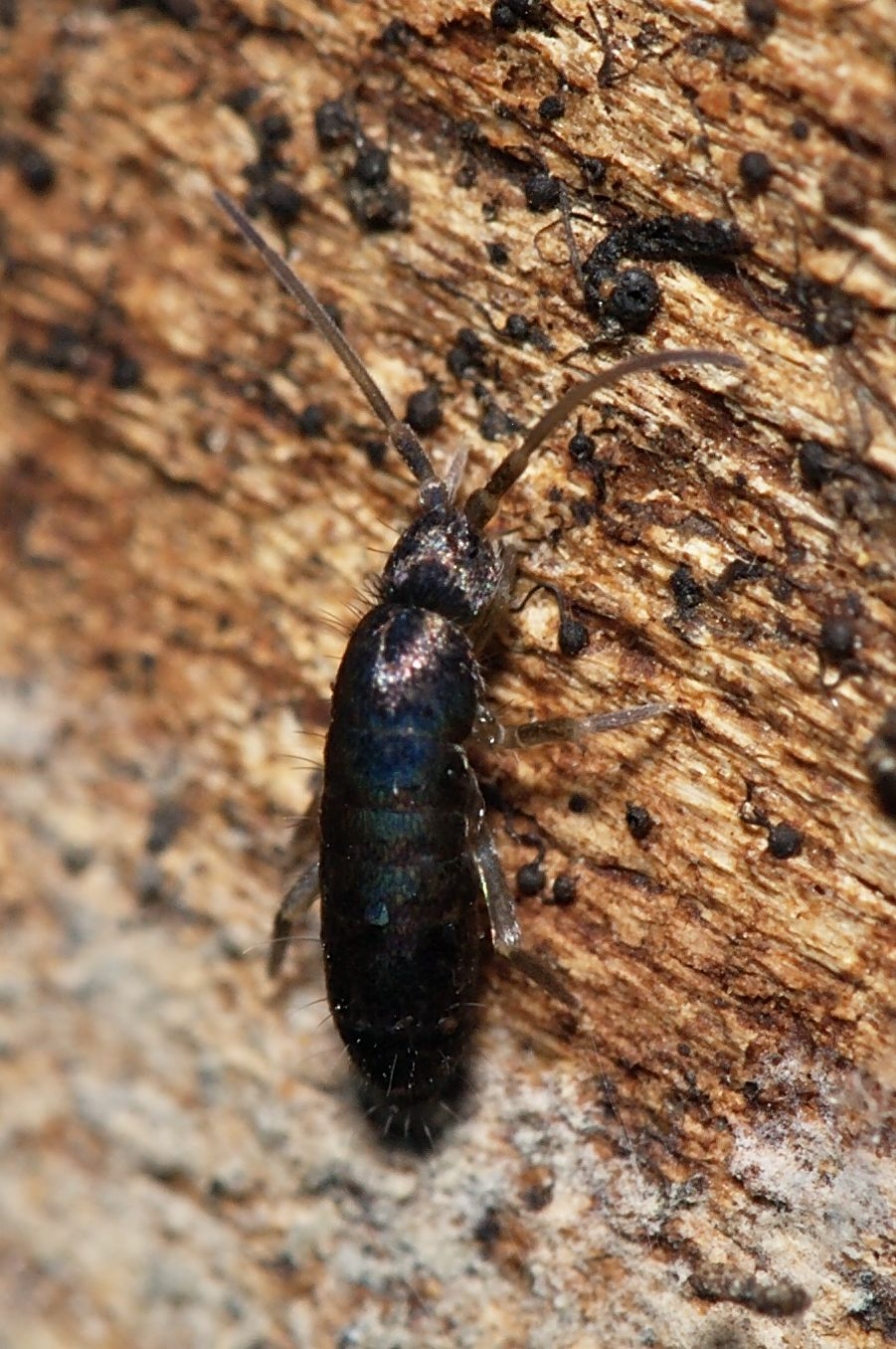 Tomocerus sp. from Koenigsforst near Cologne, Germany.